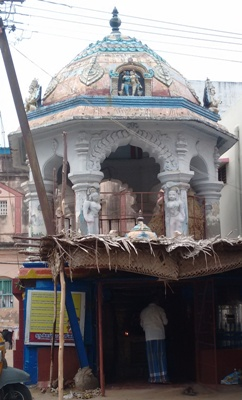 Nalukkal mandapa anjaneyar temple நாலுகால் மண்டப ஆஞ்சநேயர் கோயில்